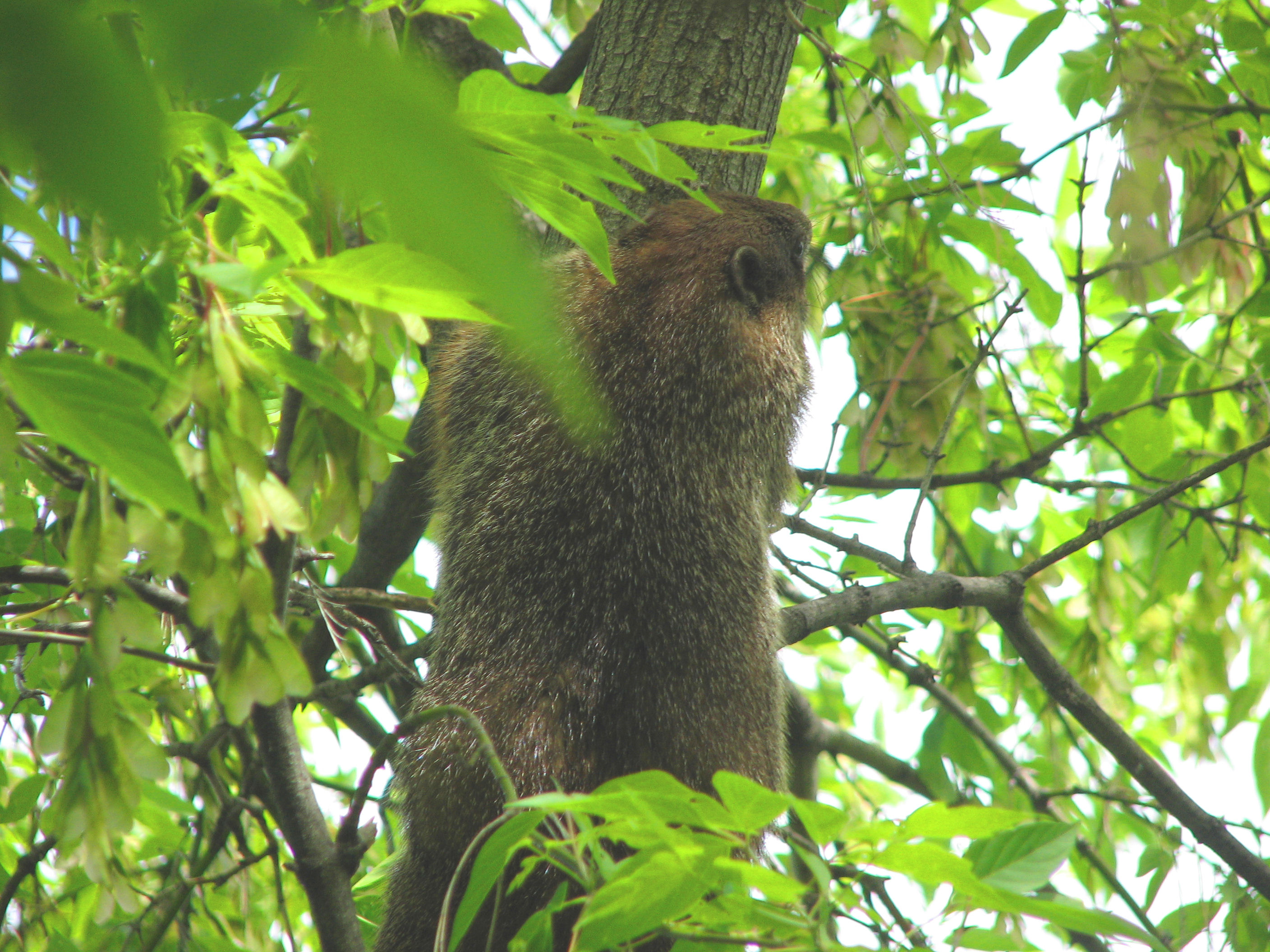 Woodchuck (Marmota monax) taking refuge in a tree alongside Rideau River, Ottawa, Ontario